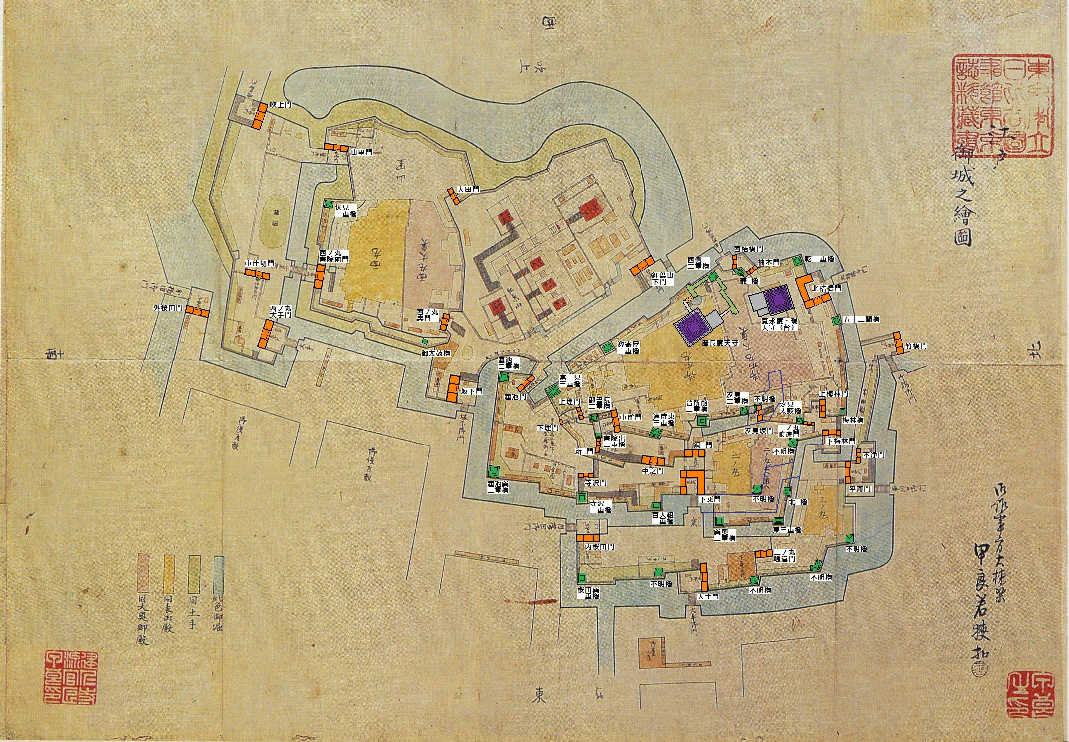 Arrangement of gate and tower in Edo castle (District on inside)